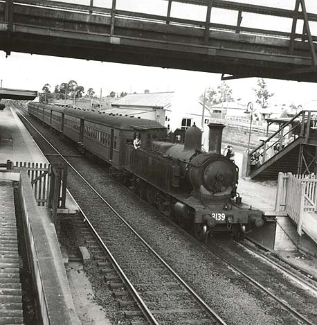 Class C3139 locomotive at St Mary Railway Station Dated: 10/04/1953 Digital ID: 17420-a014-a014000585 Rights: We'd love to hear from you if you use our photos. Many other photos in our collection are available to view and browse on our website using Photo Investigator.